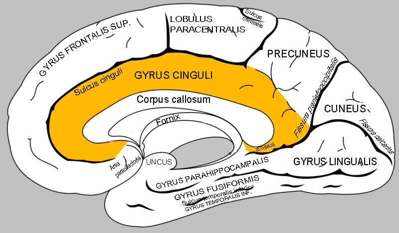 Gyrus cinguli Medial surface of right cerebral hemisphere. Figure 727 from Gray's Anatomy. Flipped horizontally (modern textbooks usually show the frontal pole on the left side). Captions changed from english to latin (Terminologia anatomica from 1998)